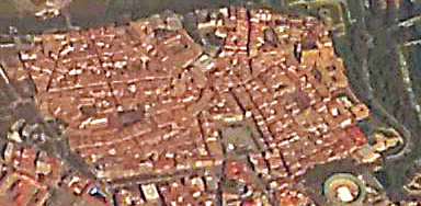 Old Town of Iruñea-Pamplona, Navarre, Basque Country